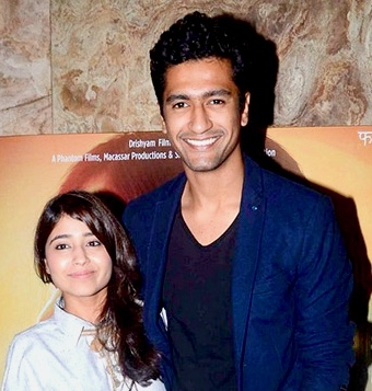 Vicky Kaushal & Shweta Tripathi at a screening of Masaan in 2015